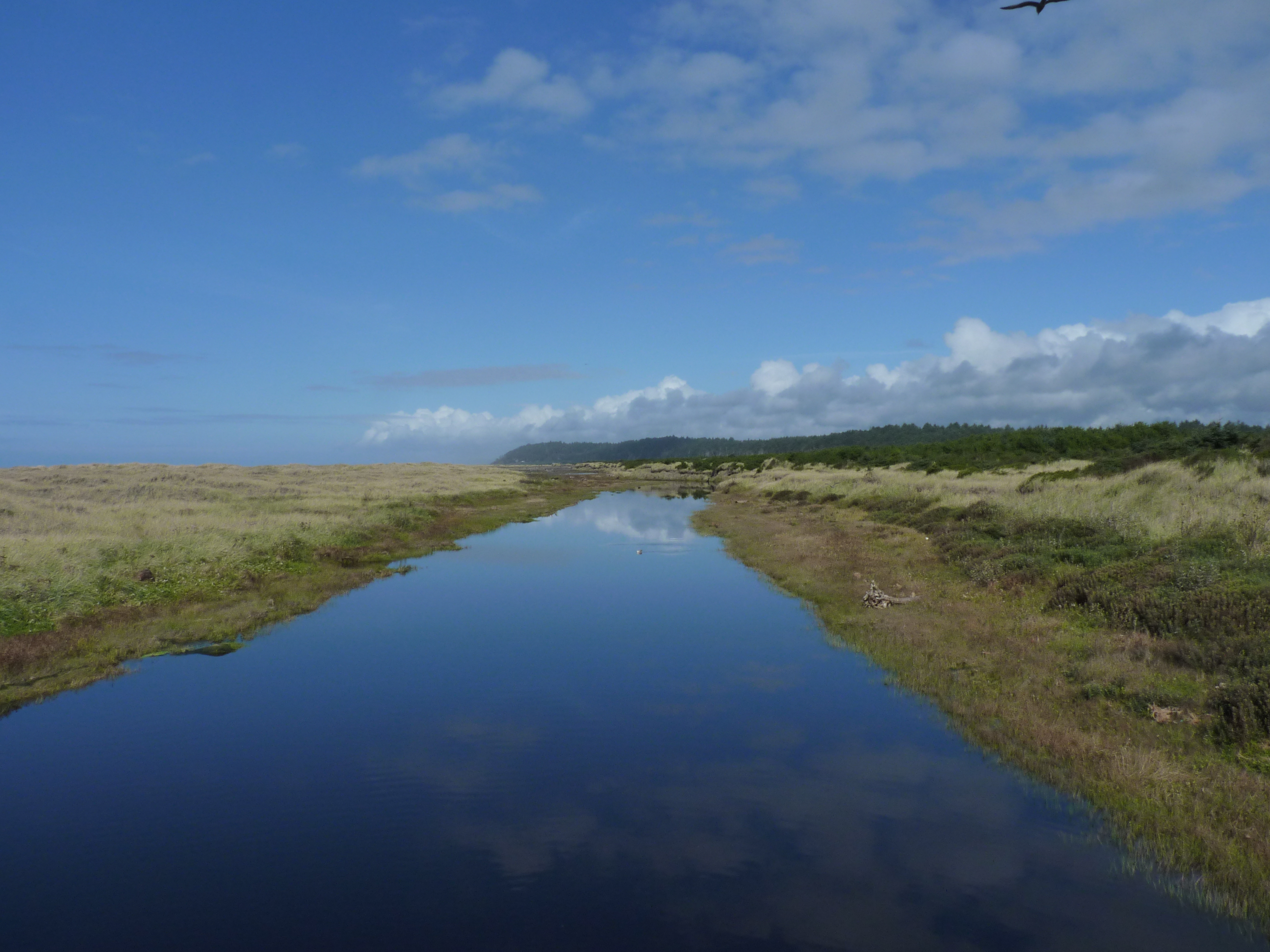 Washington, USA